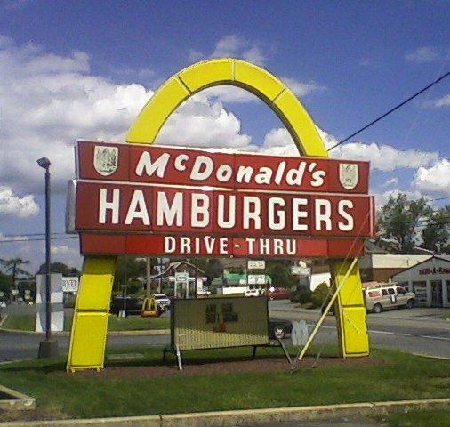 A single-arch McDonald's sign on Columbia Avenue in Lancaster, Pennsylvania.